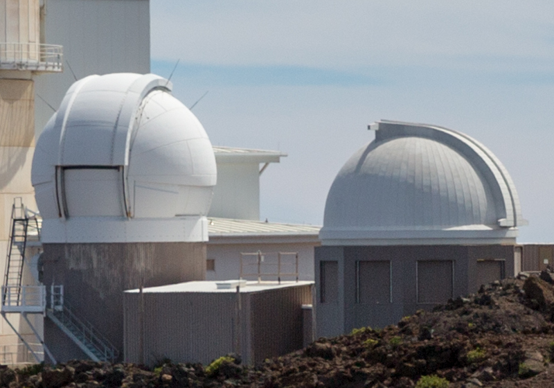 Haleakala Observatory in the summit area of Haleakalā volcano